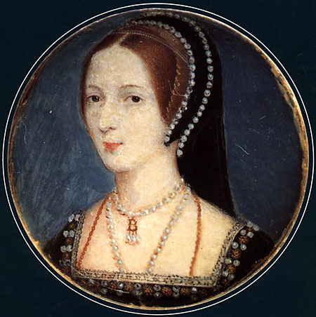 Miniature of Anne Boleyn, attributed to John Hoskins, in the Collection of Duke of Buccleuch and Queensberry